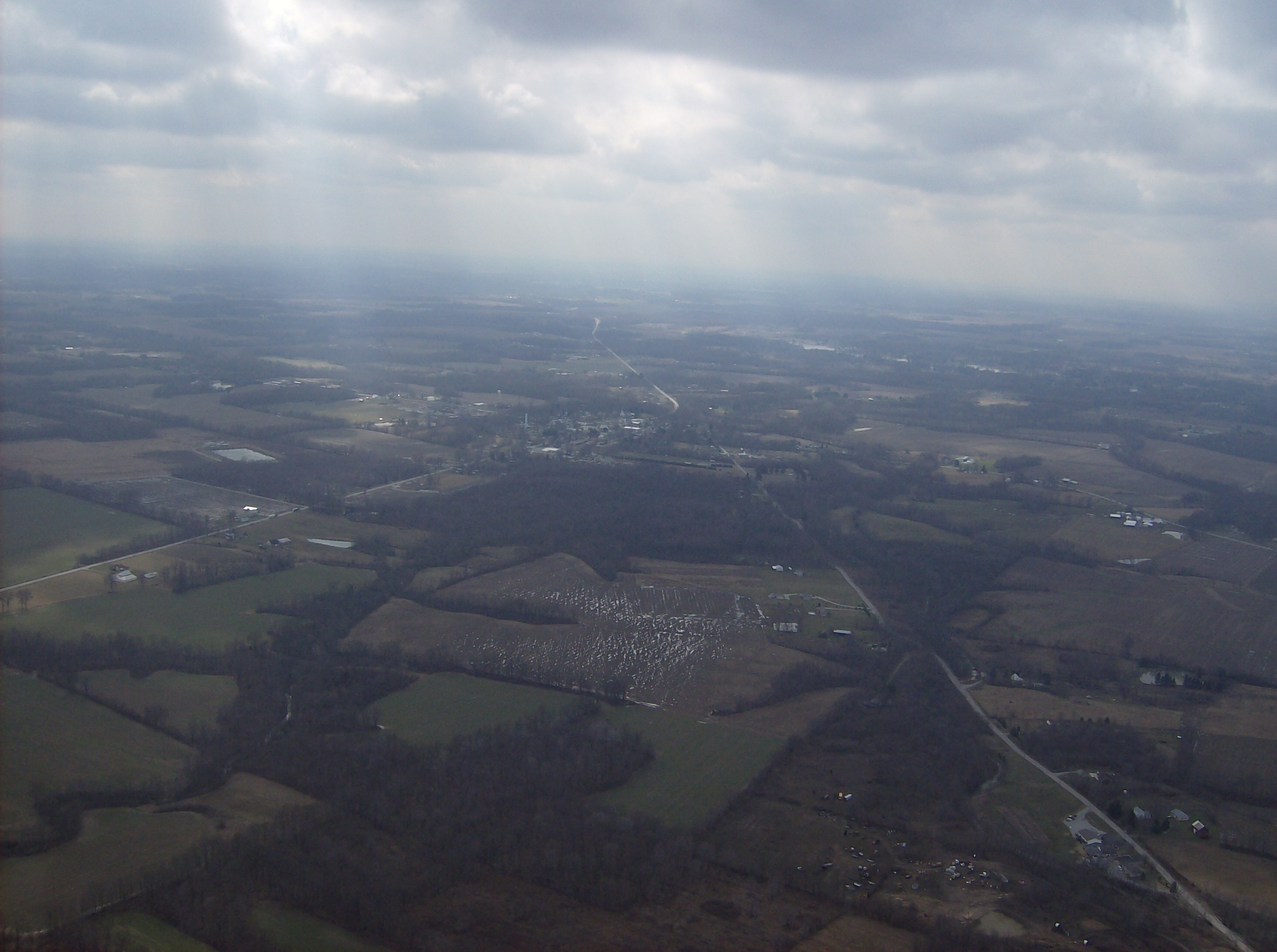 Aerial view of Fayetteville, a village in northern Brown County, Ohio, United States. Picture taken from a Diamond Eclipse light airplane at an altitude of 2,550 feet MSL at an bearing of approximately 159º.